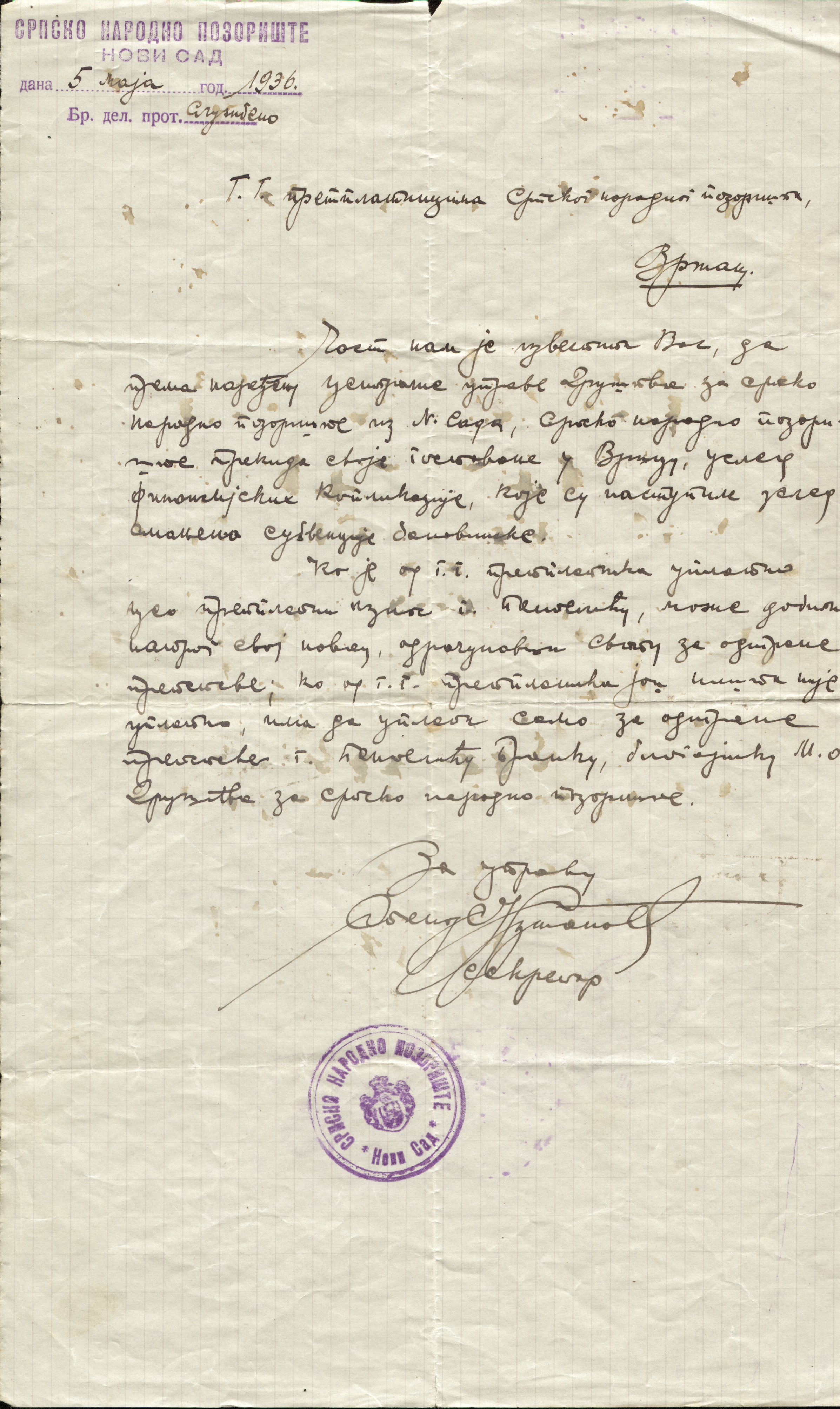 Letter from actor Stanoje Dušanović to Theatre commity SNT, May 5, 1936 Srpski (latinica): Pismo glumca Stanoja Dusanovica Pozorišnom odboru SNP-a, 5. maja 1936. Српски (ћирилица): Писмо глумца Станоја Душановића Позоришном одбору СНП-a, 5. маја 1936.